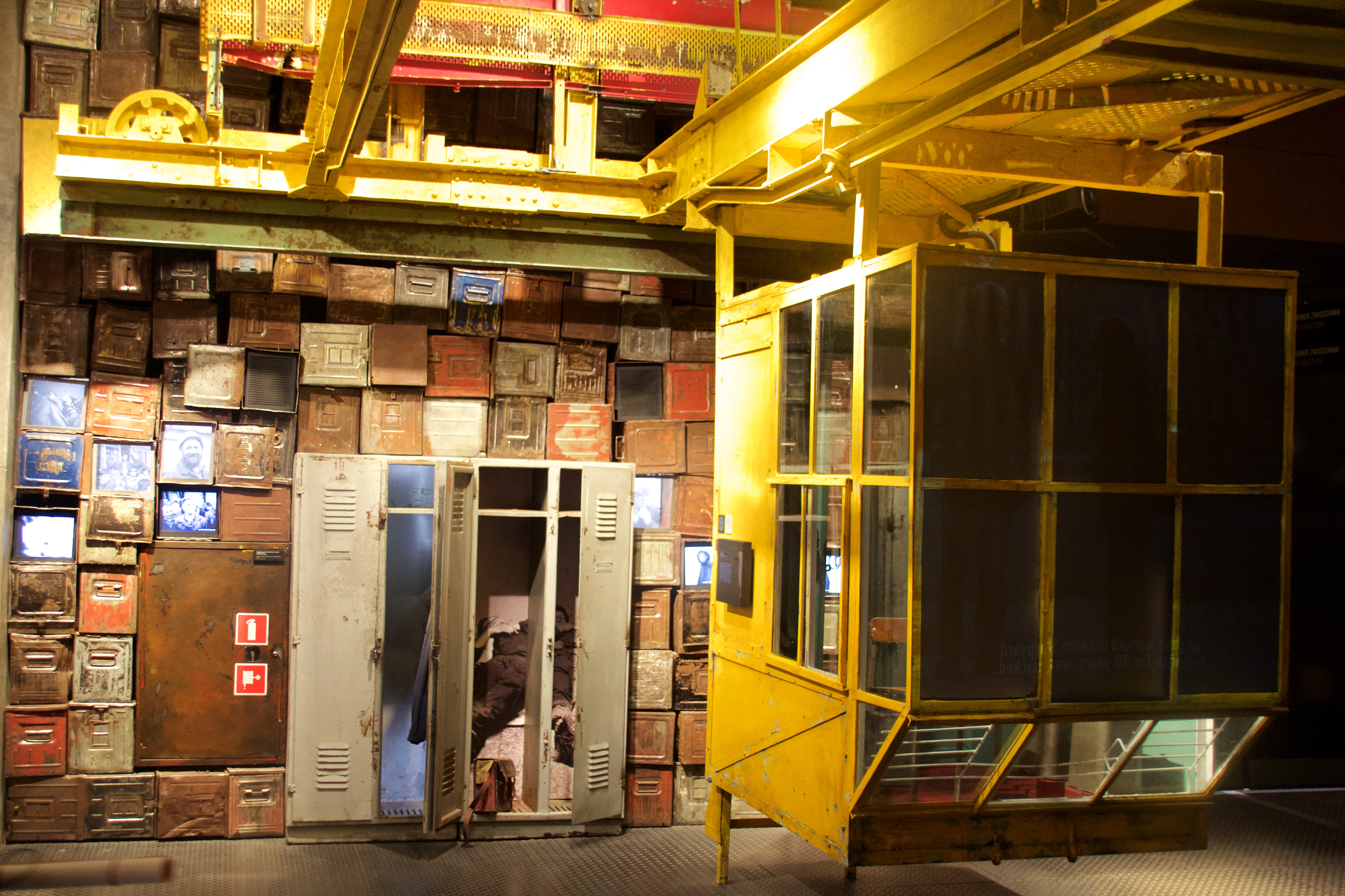 European Solidarity Centre, Gdańsk, Poland.